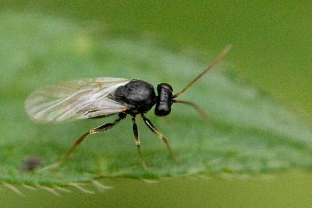 Chelonus basalis from Commanster, Belgian High Ardennes .